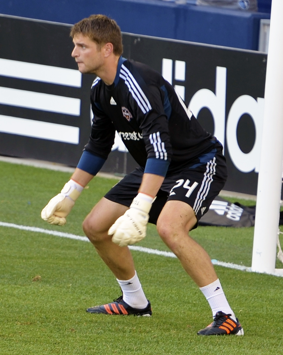 Tyler Deric, during warmups of a Houston Dynamo vs. Sporting KC on July 7th, 2012 at Livestrong Sporting Park, in Kansas City, Kansas.